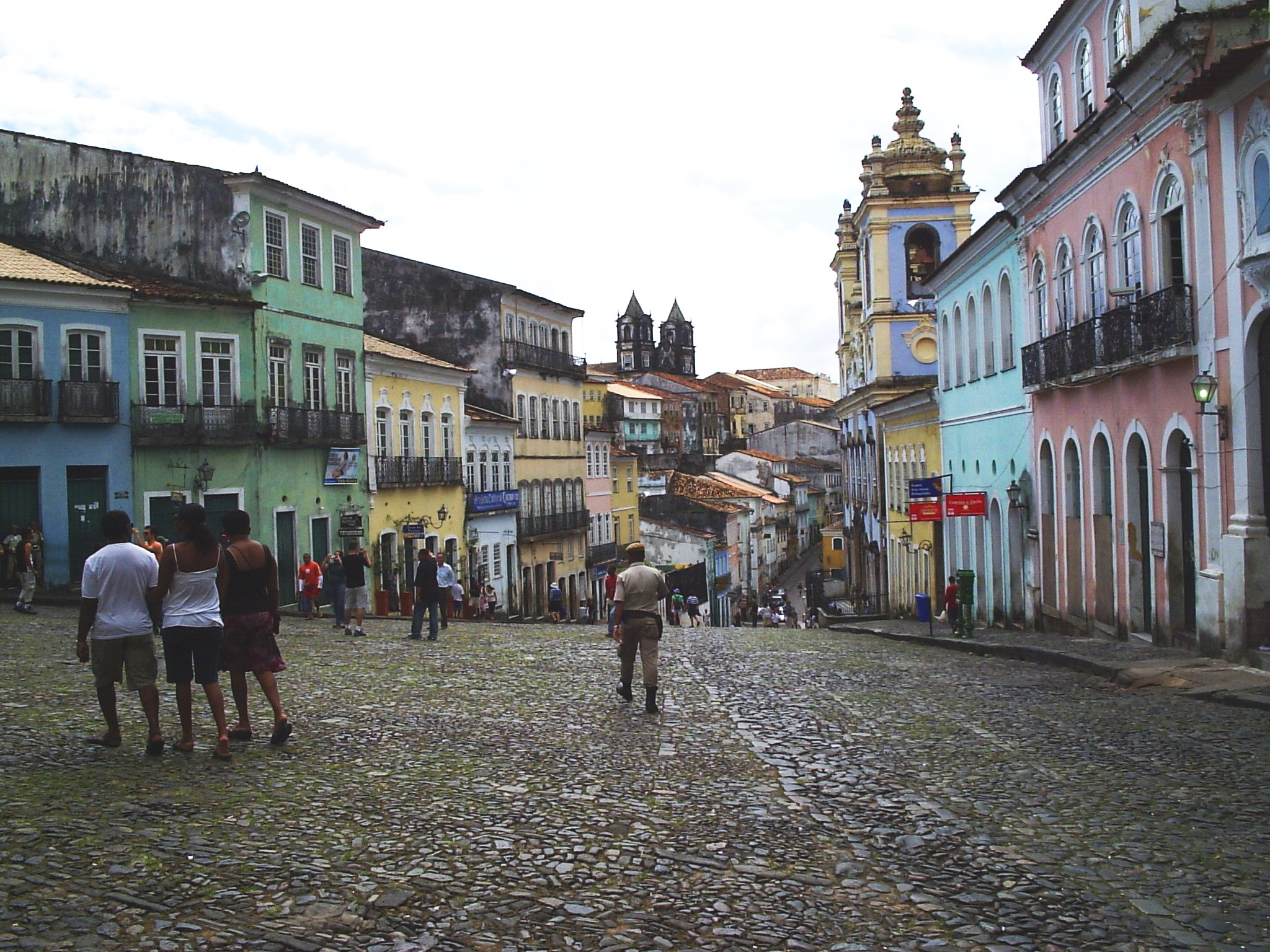 Pelourinho Plaza.